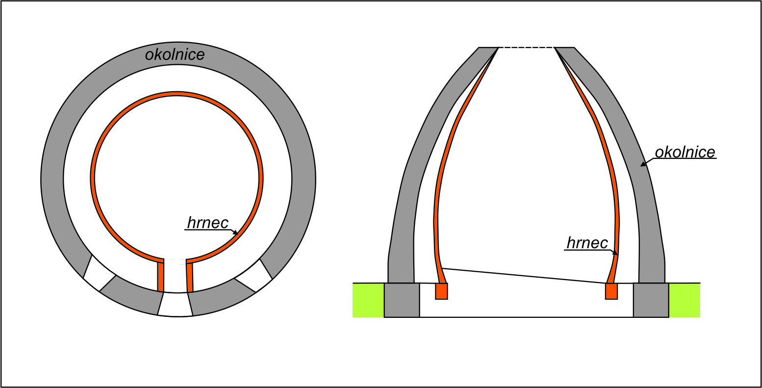 Tar furnace scheme